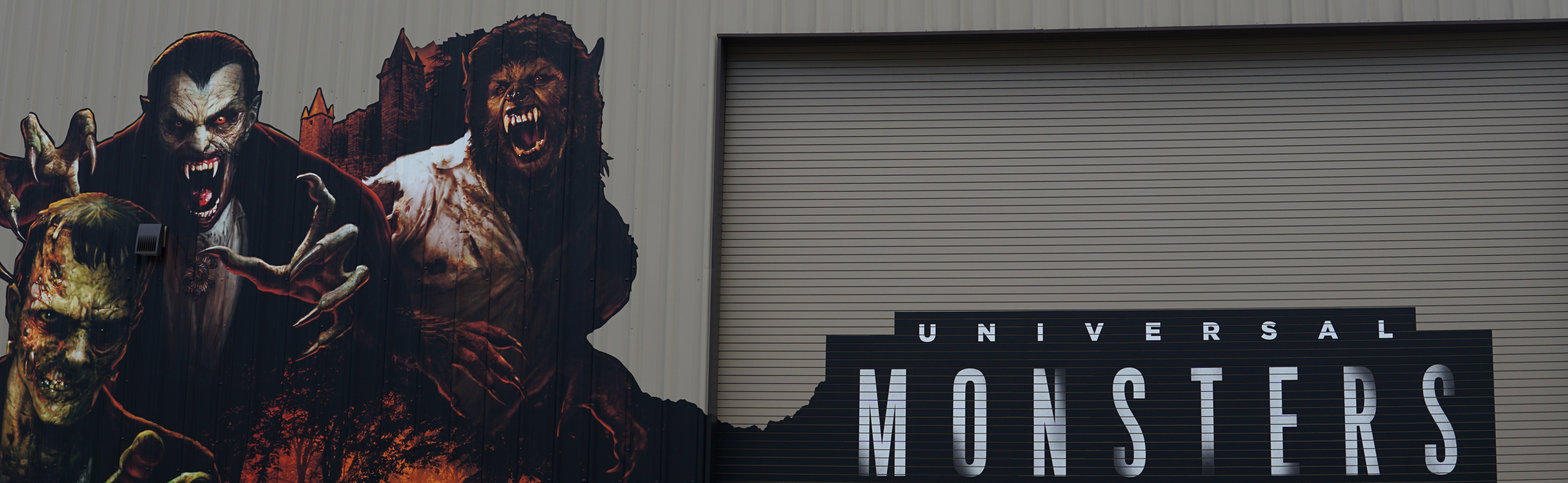 Universal Monsters haunted house at Halloween Horror Nights Orlando 29